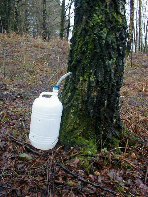 System to collect birch syrup Walon: Botaye po rascode li djus d' beyôle